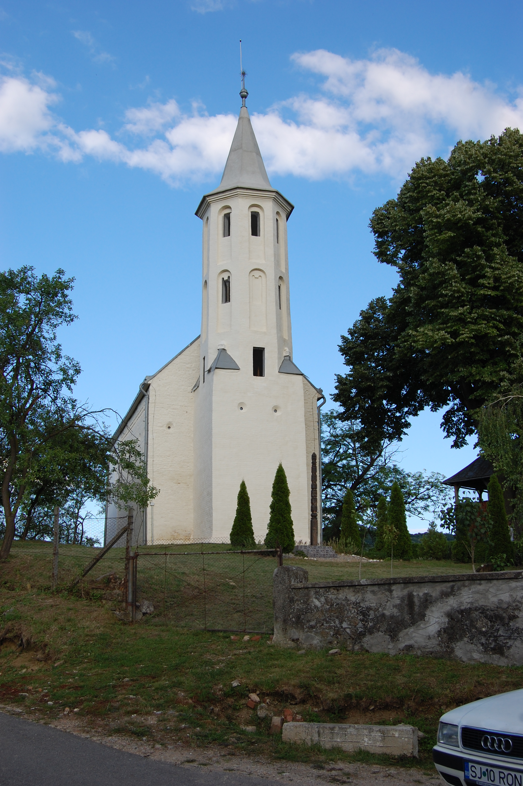 Reformed Curch in Somlyóújlak (Uileacu Simleului, Romania)